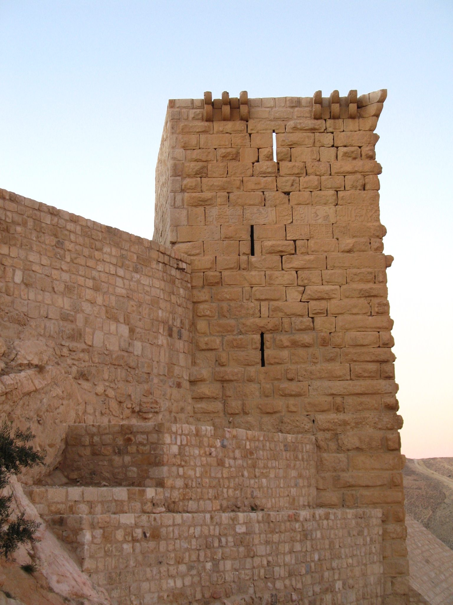 Shobak (Montréal) Castle.